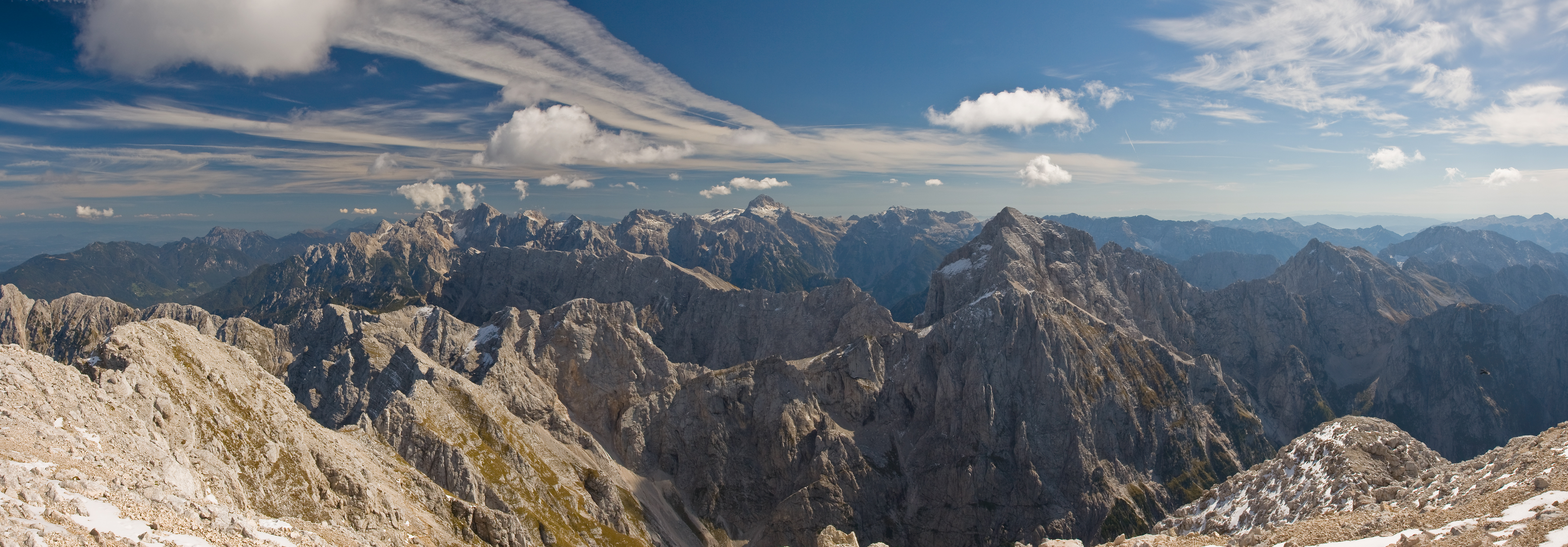 View from top of the Mangart (2679m) to Triglav National Park. Triglav (2864m), the highest mountain in Slovenia is seen in the background in the middle of the image. Panorama stitched from three landscape format images using PTGUI [3].